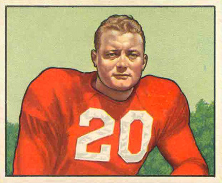 American football player Buster Ramsey on a 1950 Bowman card.